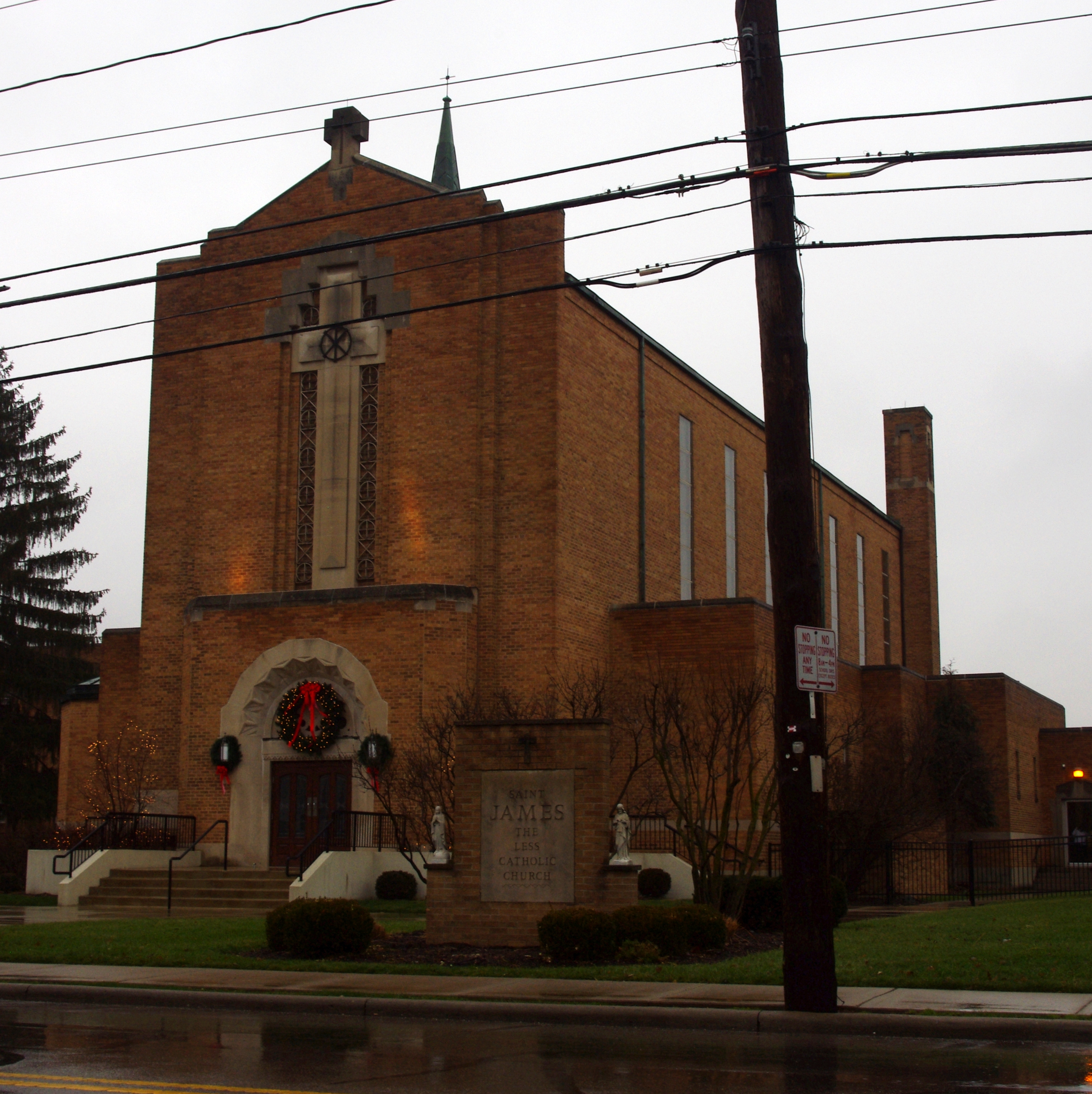 Saint James the Less Church (Columbus, Ohio) - exterior 1